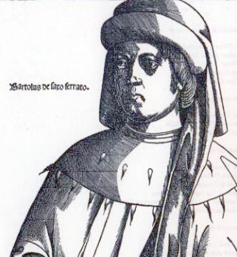 Barolus de Saxoferrato (1313 – 1357) was an Italian law professor and one of the most prominent continental jurists of the Middle Ages